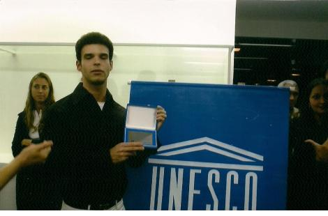 MARCELO MORAES CAETANO, UNESCO, 2005